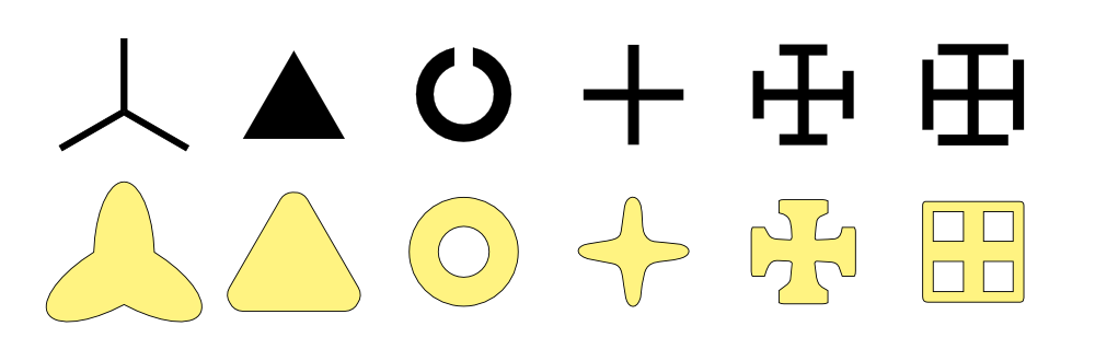 Extrusion fiber's 6 nozzle shapes without text